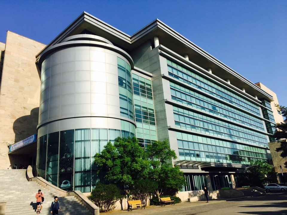 수원대학교 종합강의동. 2017년 06월 02일 편집자 본인이 직접 촬영.